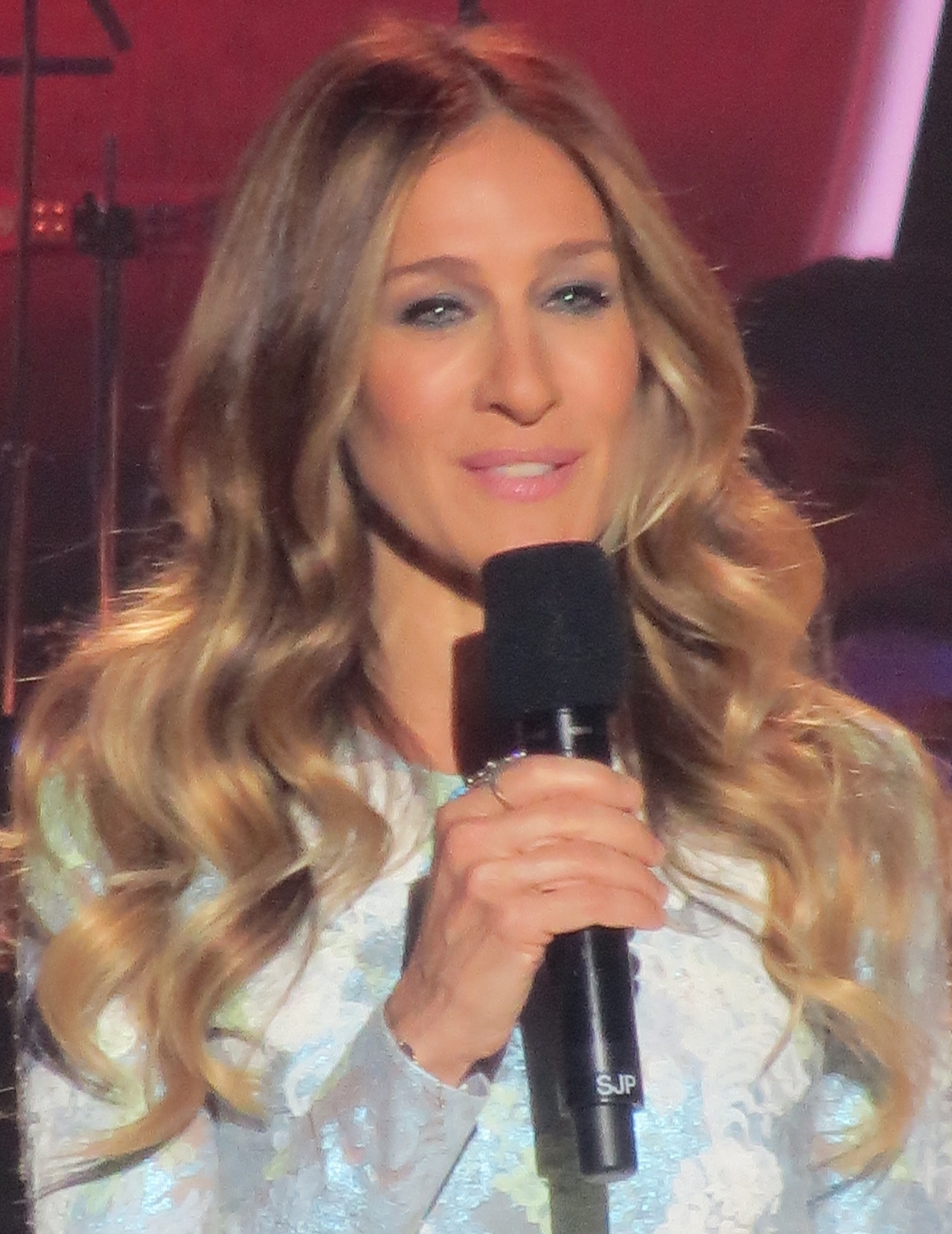 Photo from the 2012 Nobel Peace Prize Concert in Oslo Spektrum arena, Oslo, Norway. Hosts of the evening were Sarah Jessica Parker and Gerard Butler.